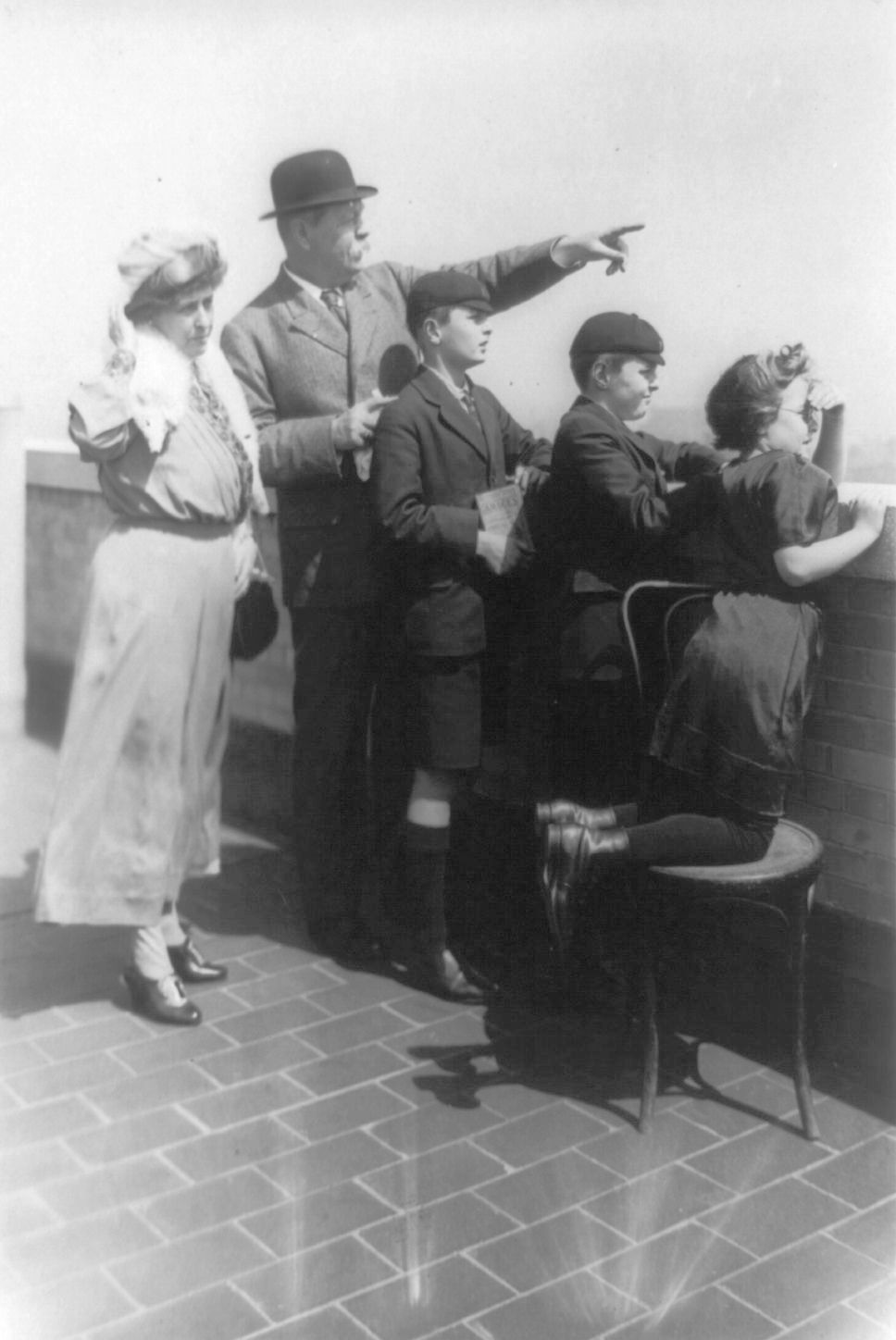 Sir Arthur Conan Doyle and family looking over wall and pointing, New York City